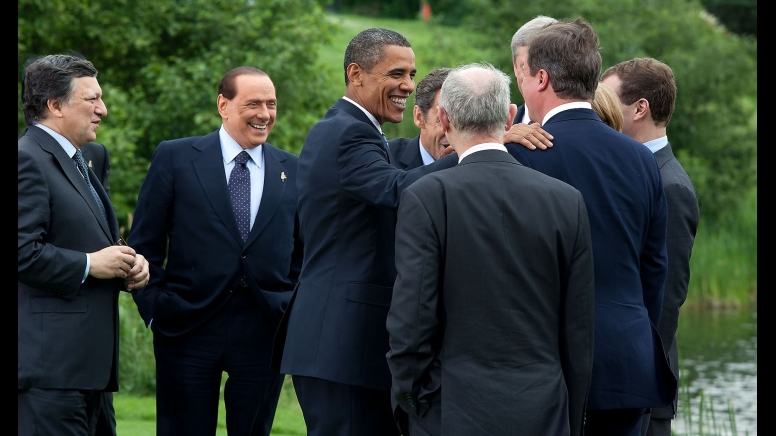 President Barack Obama shares a laugh with other world leaders after they posed for the family photo at the G8 Summit in Muskoka, Canada, June 25, 2010.